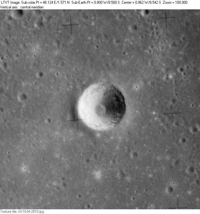 Crater Ammonius , photo made by Apollo 16 crew.